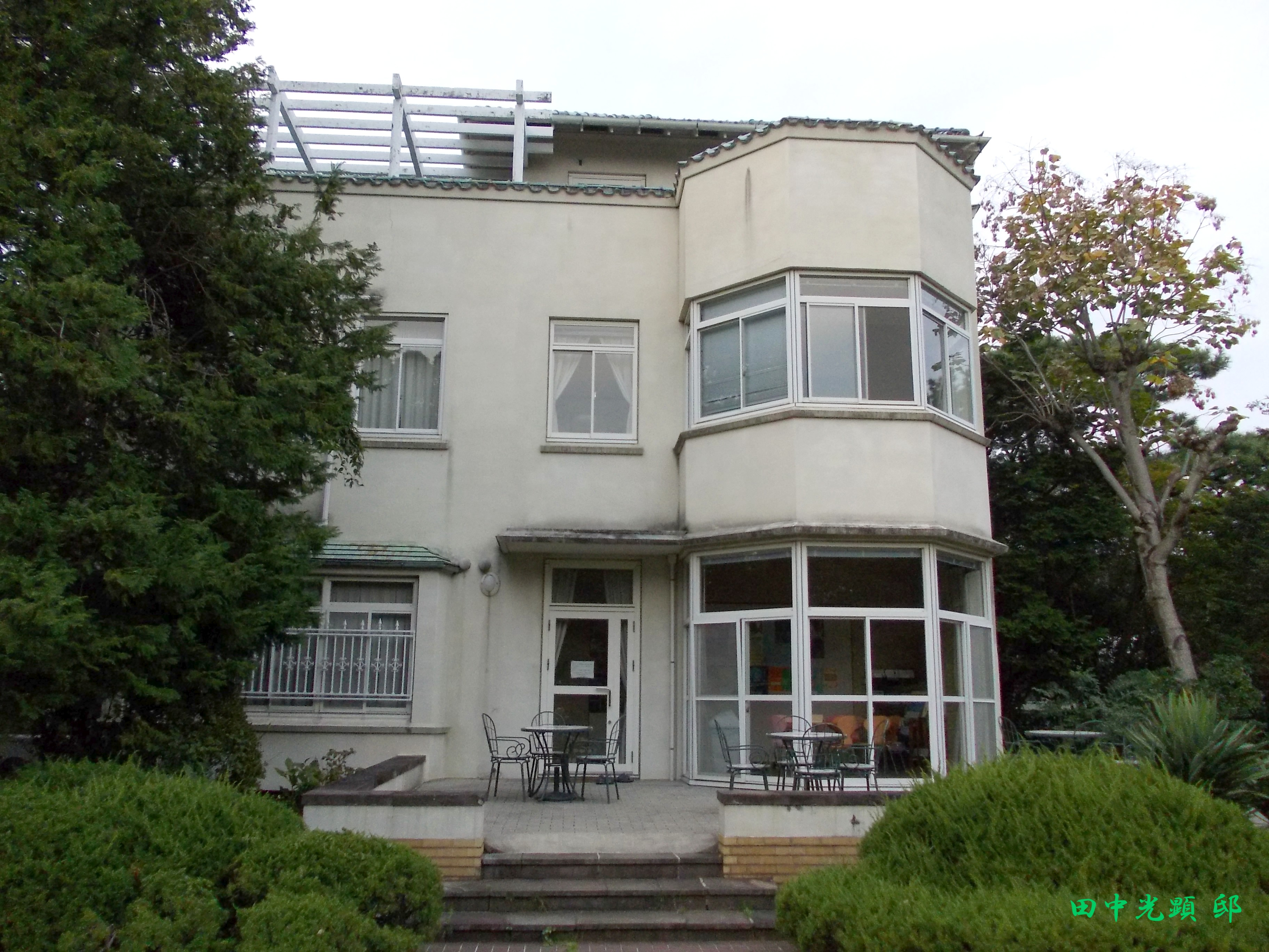 Spanish residence of Mitsuaki Tanaka